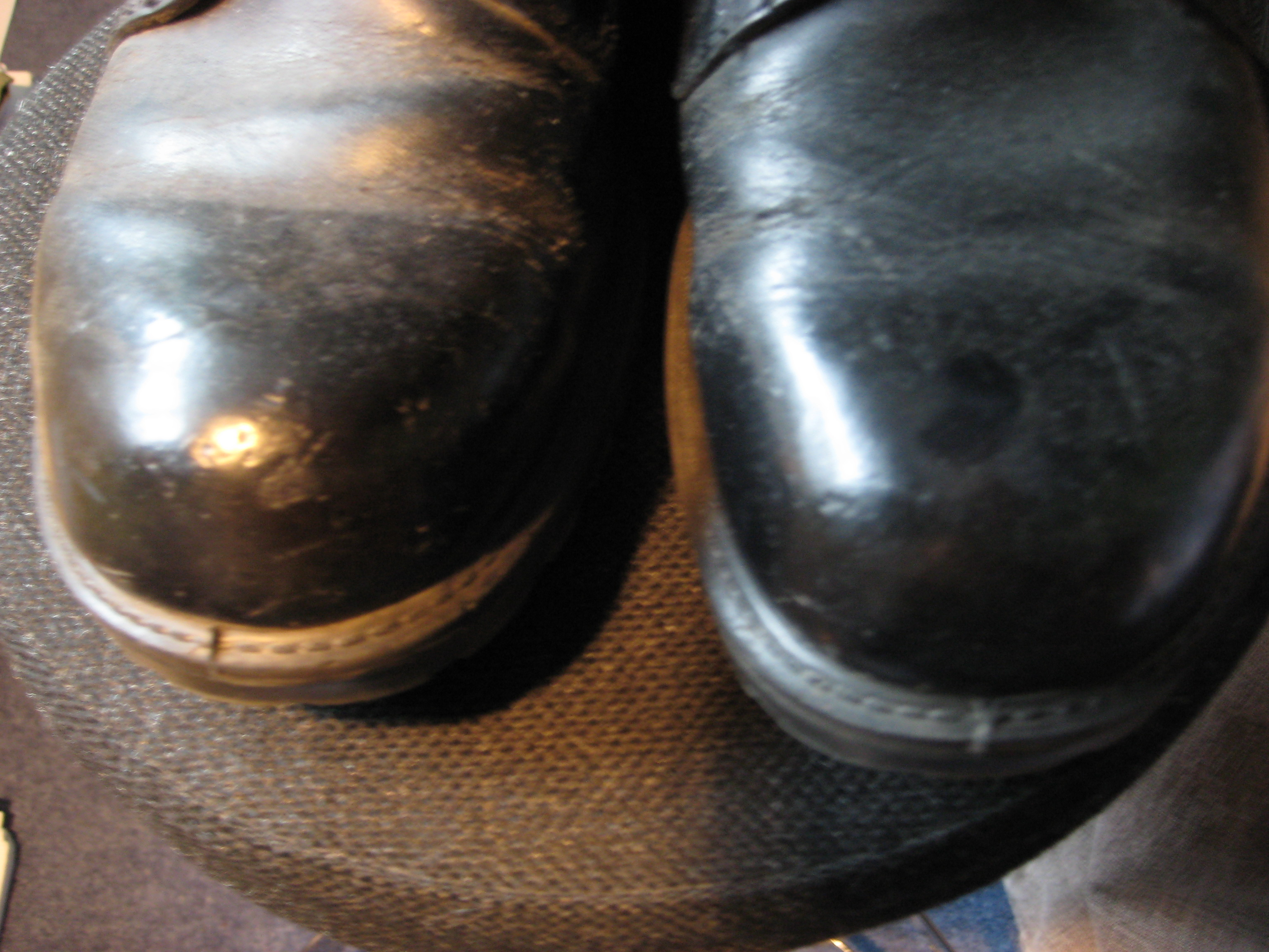 British Combat boots, Daily use